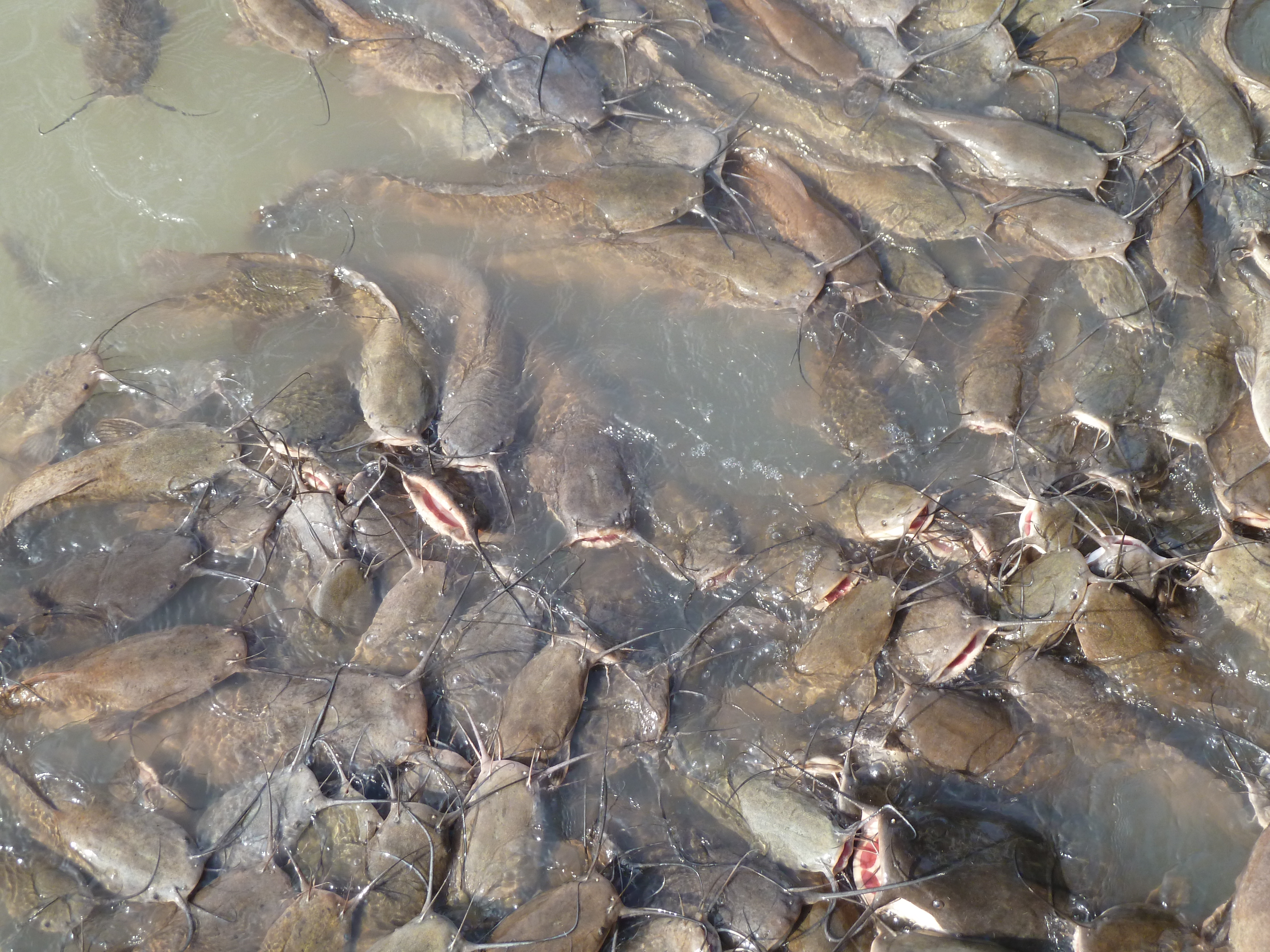 Ein Afek, Israel